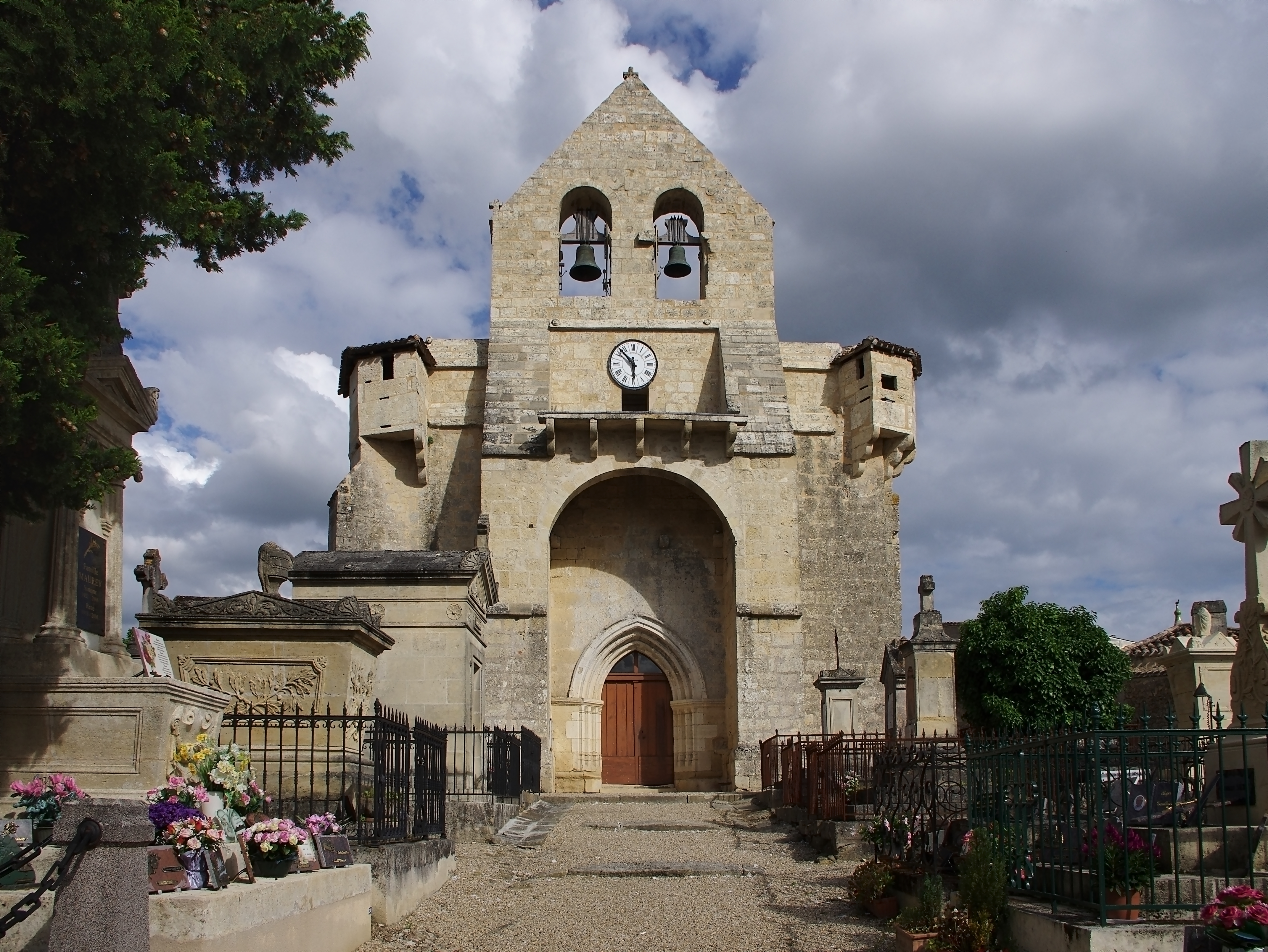 Churchyard and façade of the church (built in the XIIIth century and modified between the XVIth and the XVIIIth), Saint-Jean-de-Blaignac, France. .